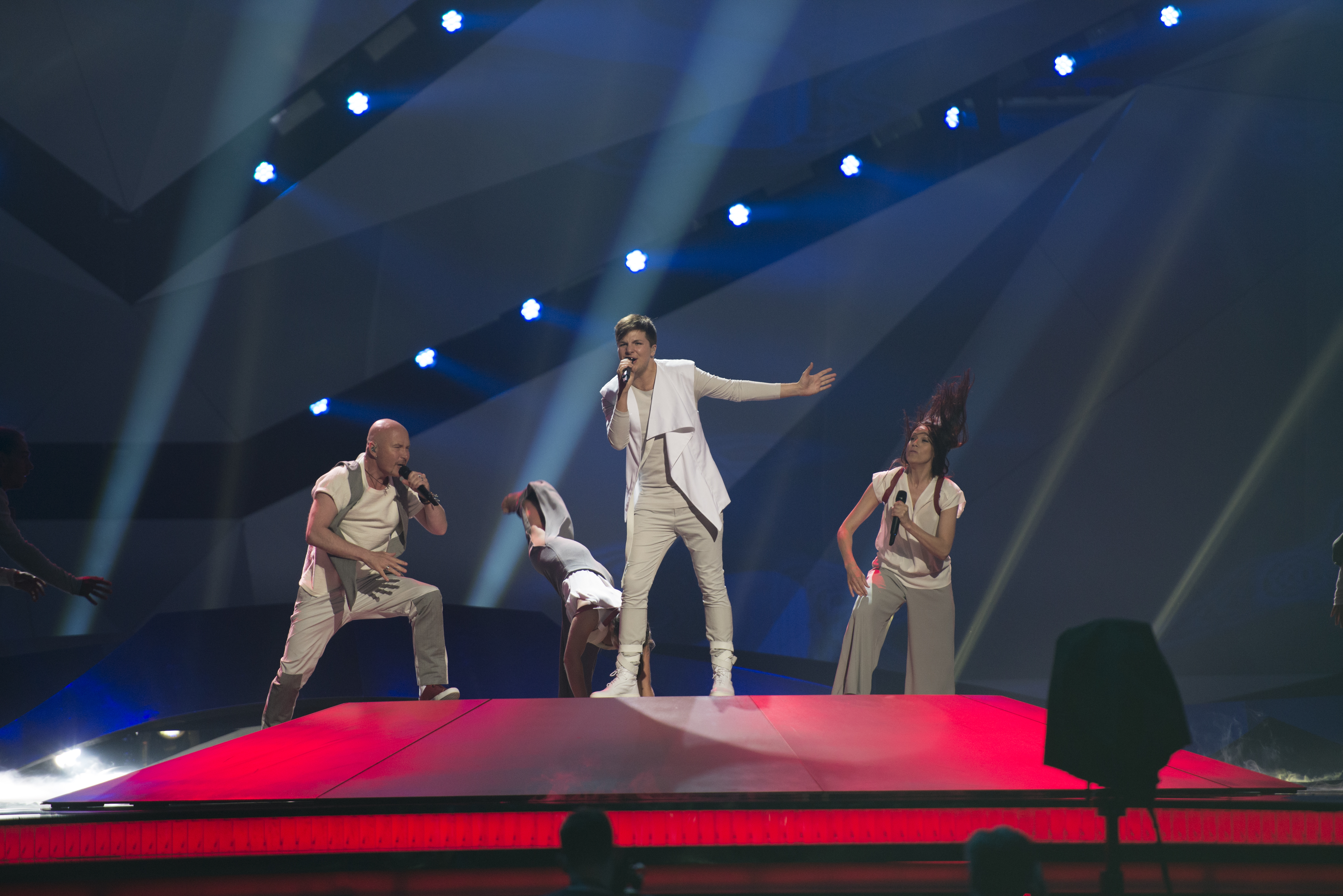 Robin Stjernberg representing Sweden with the song "You" during the first dress rehearsal of the final of the Eurovision Song Contest 2013 in Malmö. (Help translate this text)